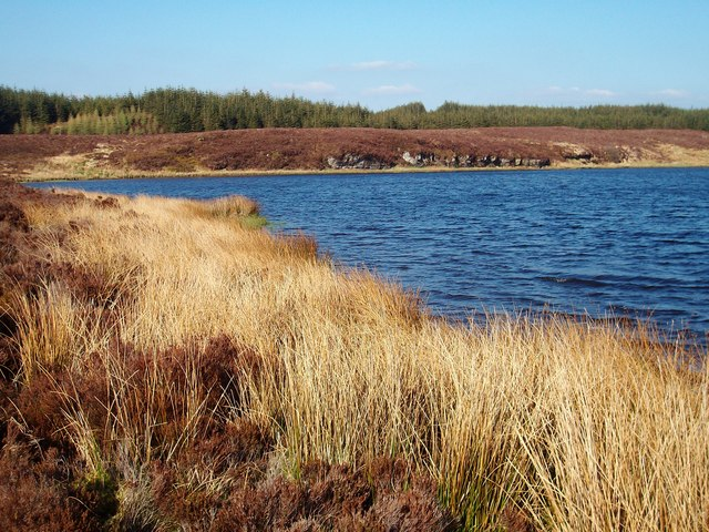 Llyn Northern shore of Llyn Coch-hwyad, some sort of boating activity goes on here as there are upturned boats on shore.